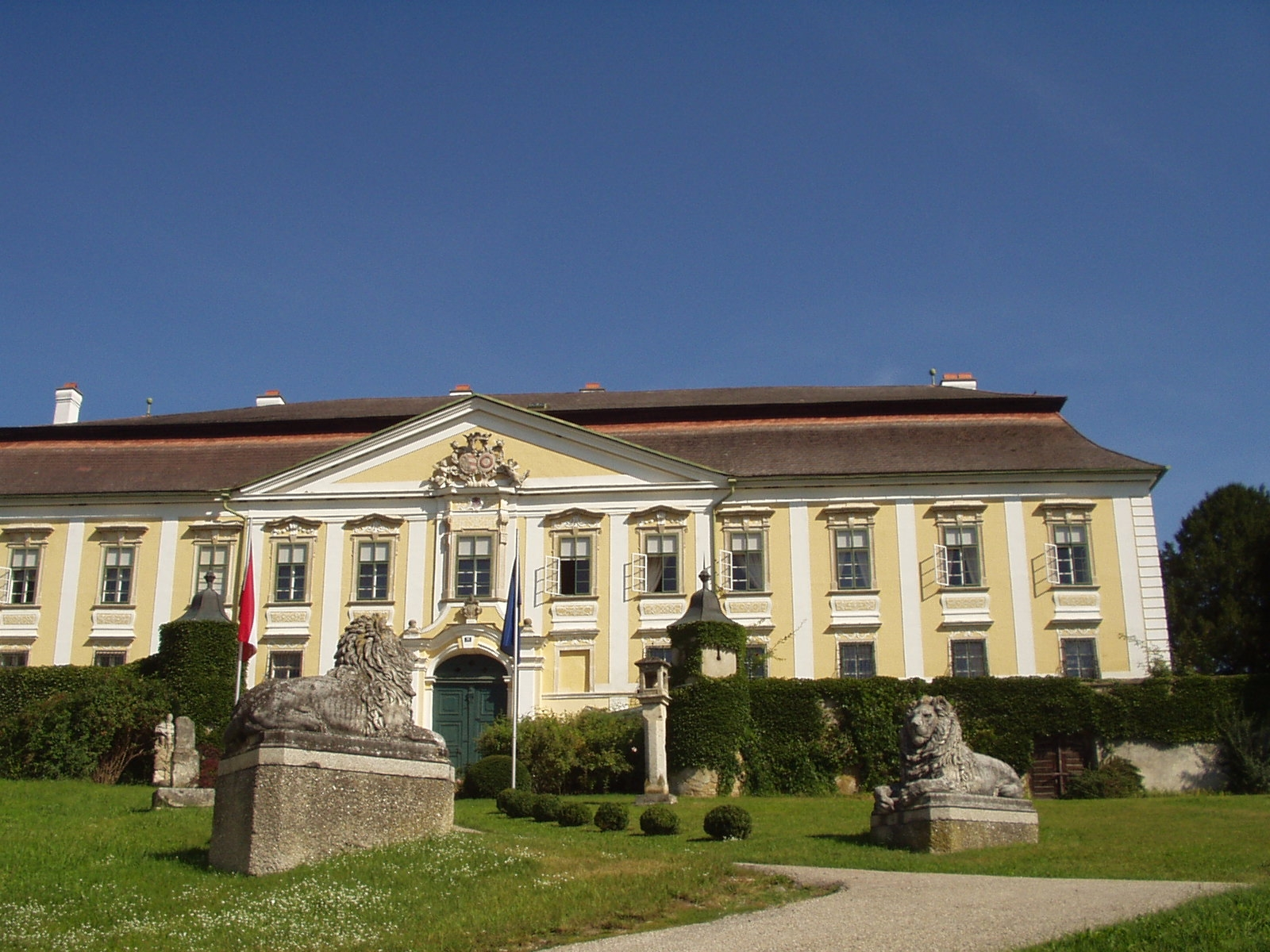 Castle Gobelsburg in Langenlois